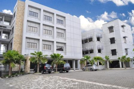 fakultas ekonomi UM